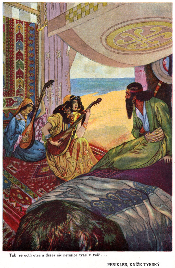 Illustration by Czech painter Artuš Scheiner for Shakespeare’s Pericles, Prince of Tyre Česky: Ilustrace Artuše Scheinera k Shakespearově hře Periklés (Periklés, kníže tyrský)